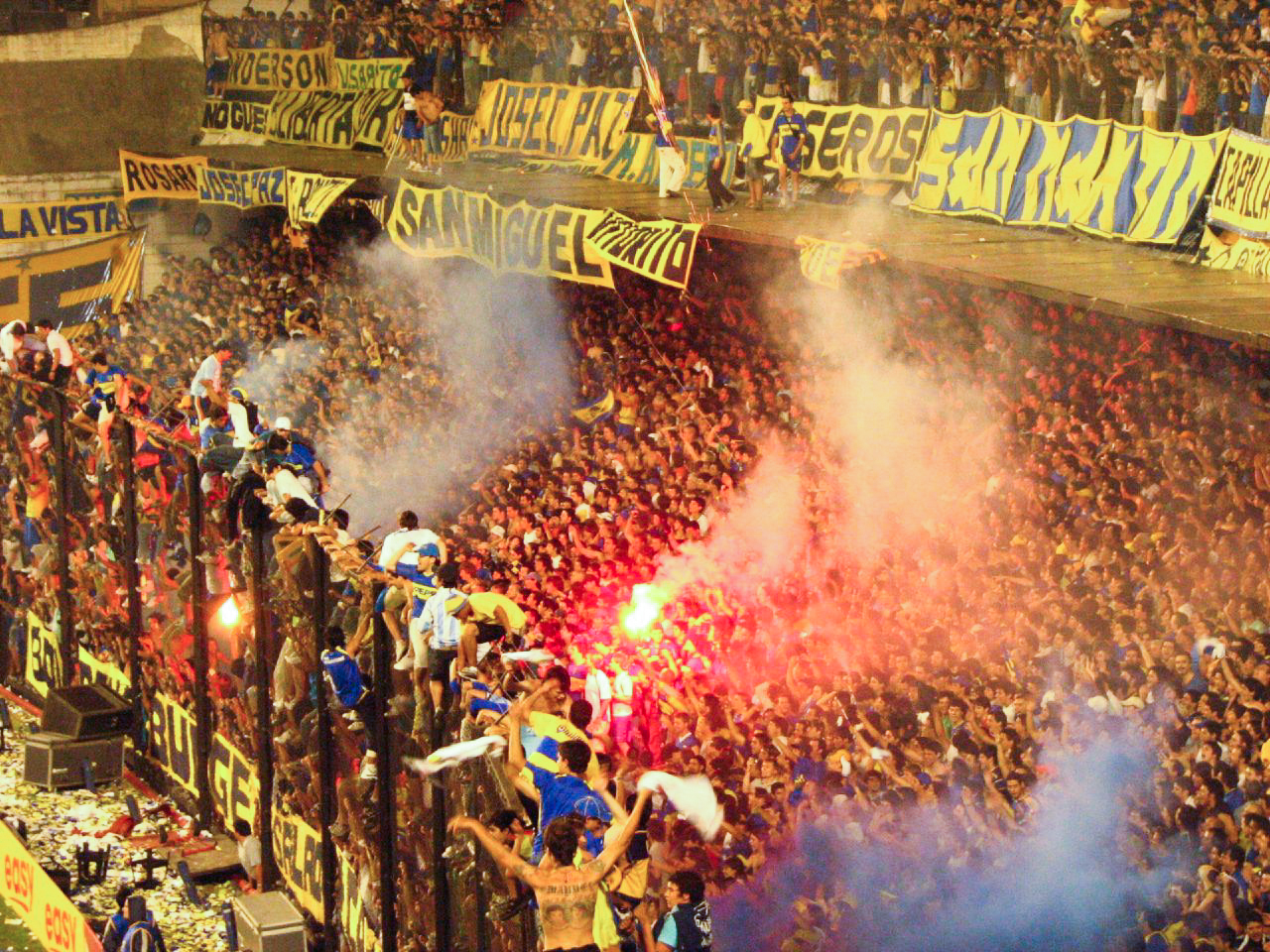 Hinchas de Boca Juniors en partido de vuelta de la final de la Copa Sudamericana 2005.